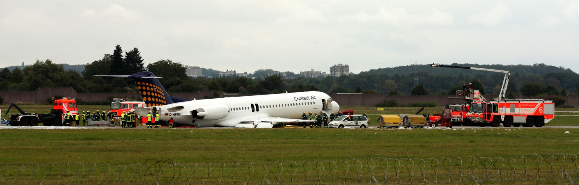 Emergency landing of a Fokker 100 (Contact Air) at Stuttgart Airport. Franz Müntefering, the chairperson of the Social Democratic Party of Germany (SPD), survived the morning landing and sustained no injuries. None of the other passengers received serious injuries.